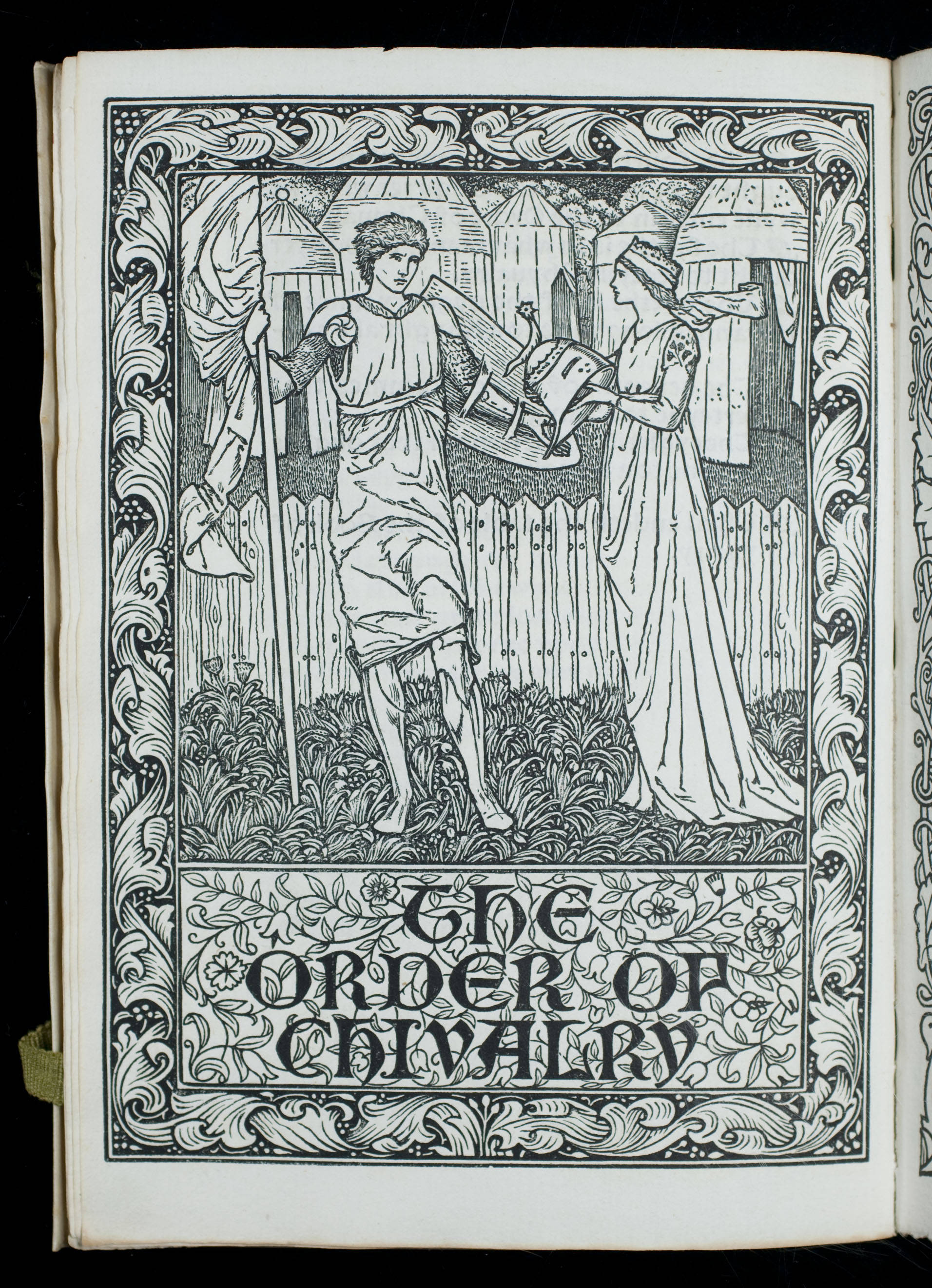 The cover of the Ramon Lull's The Book of the Order of Chivalry (originally published in 1275), published by Kelmscott Press (in 1892)